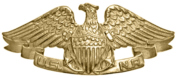 United States Navy Media Center